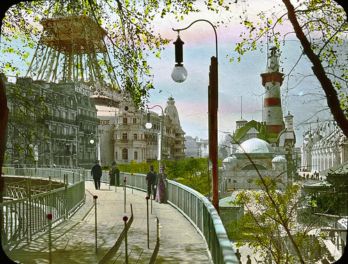 Paris Exposition: moving sidewalk, Paris, France, 1900.